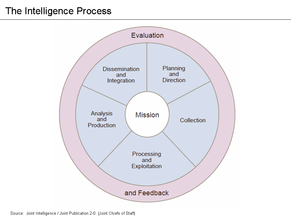 The Intelligence Process as described by the Joint Chiefs of Staff in JP 2-0. It shows the six interrelated categories of intelligence operations characterized by broad activities conducted by intelligence staffs and organizations for the purpose of providing commanders and national-level decision makers with relevant and timely intelligence.